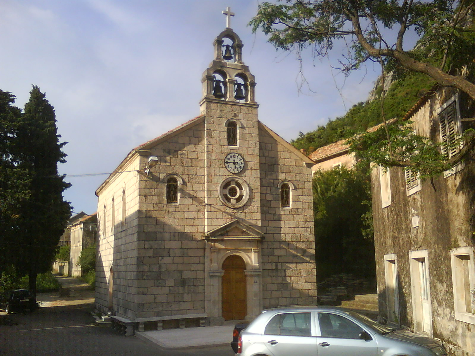 Roman Catholic St. Anthony church in Peliška Duba ,village in Trpanj municipality